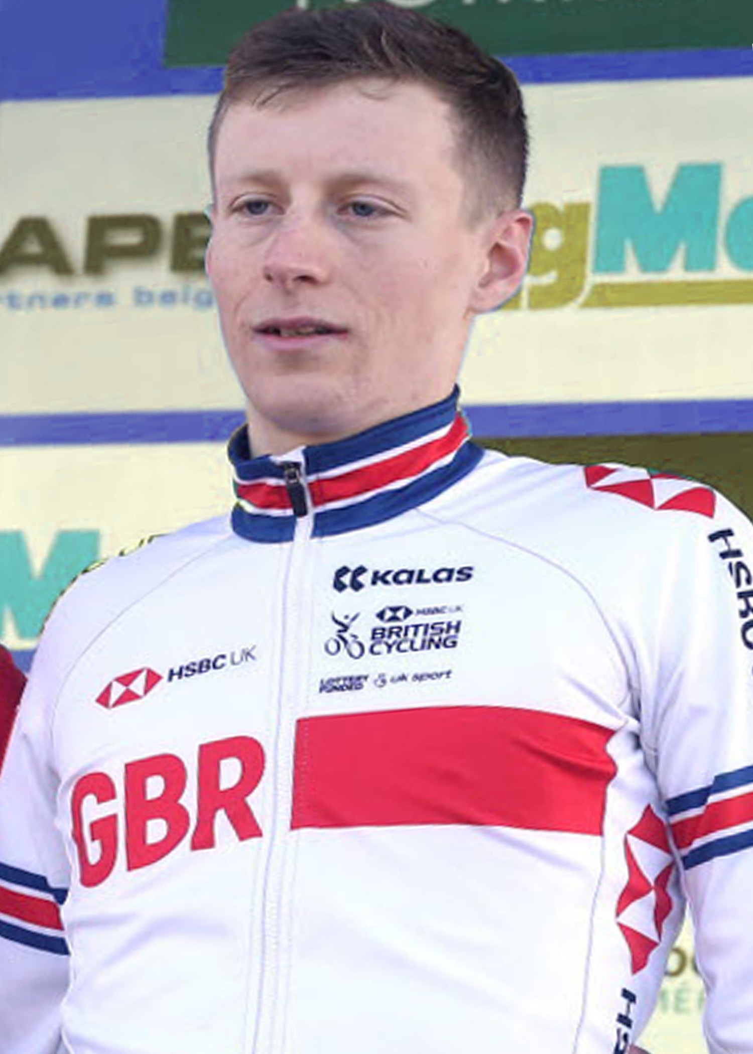 Mein at a Swiss cycling race